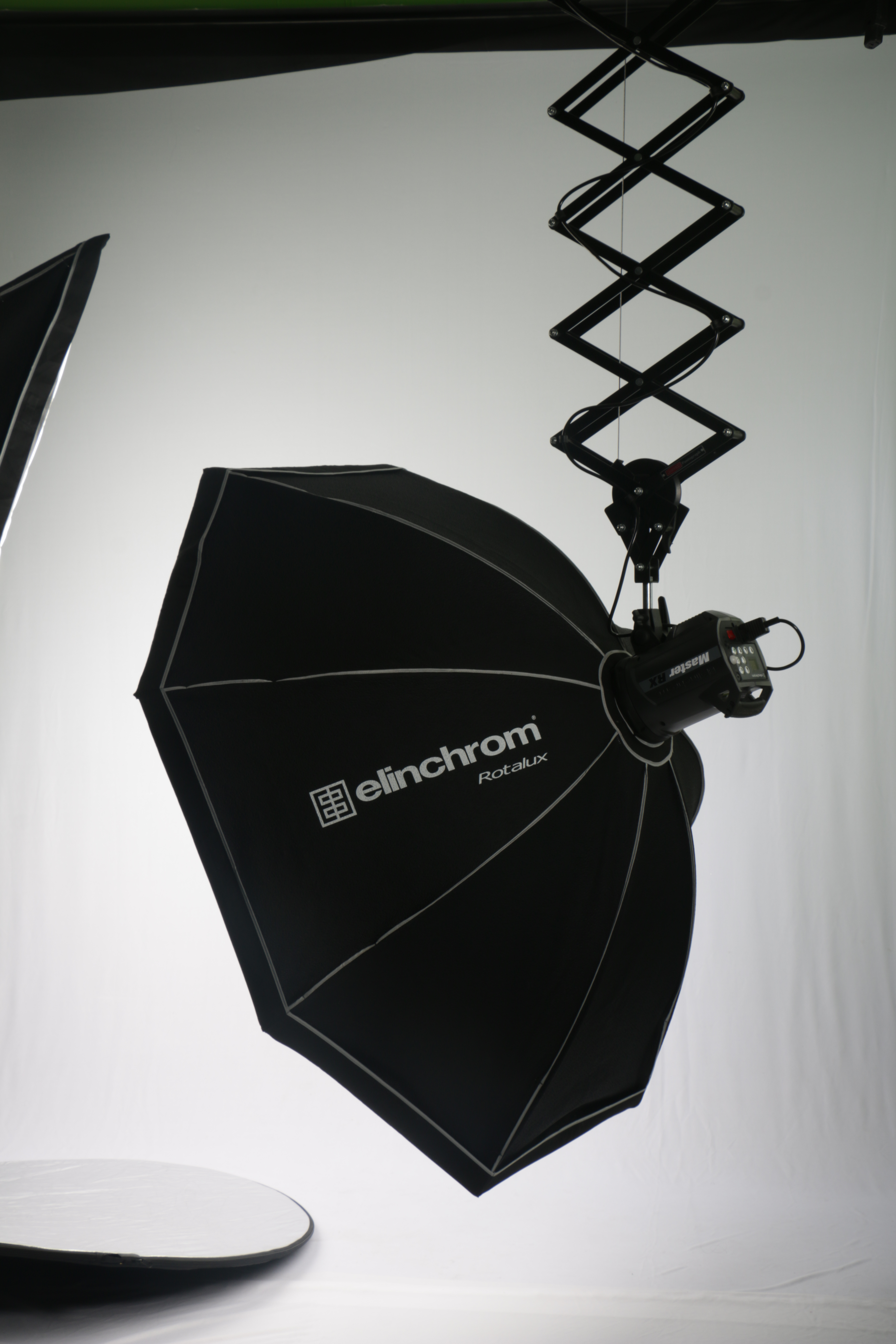 A pantograph with a light mounted on it at Artriva Studios